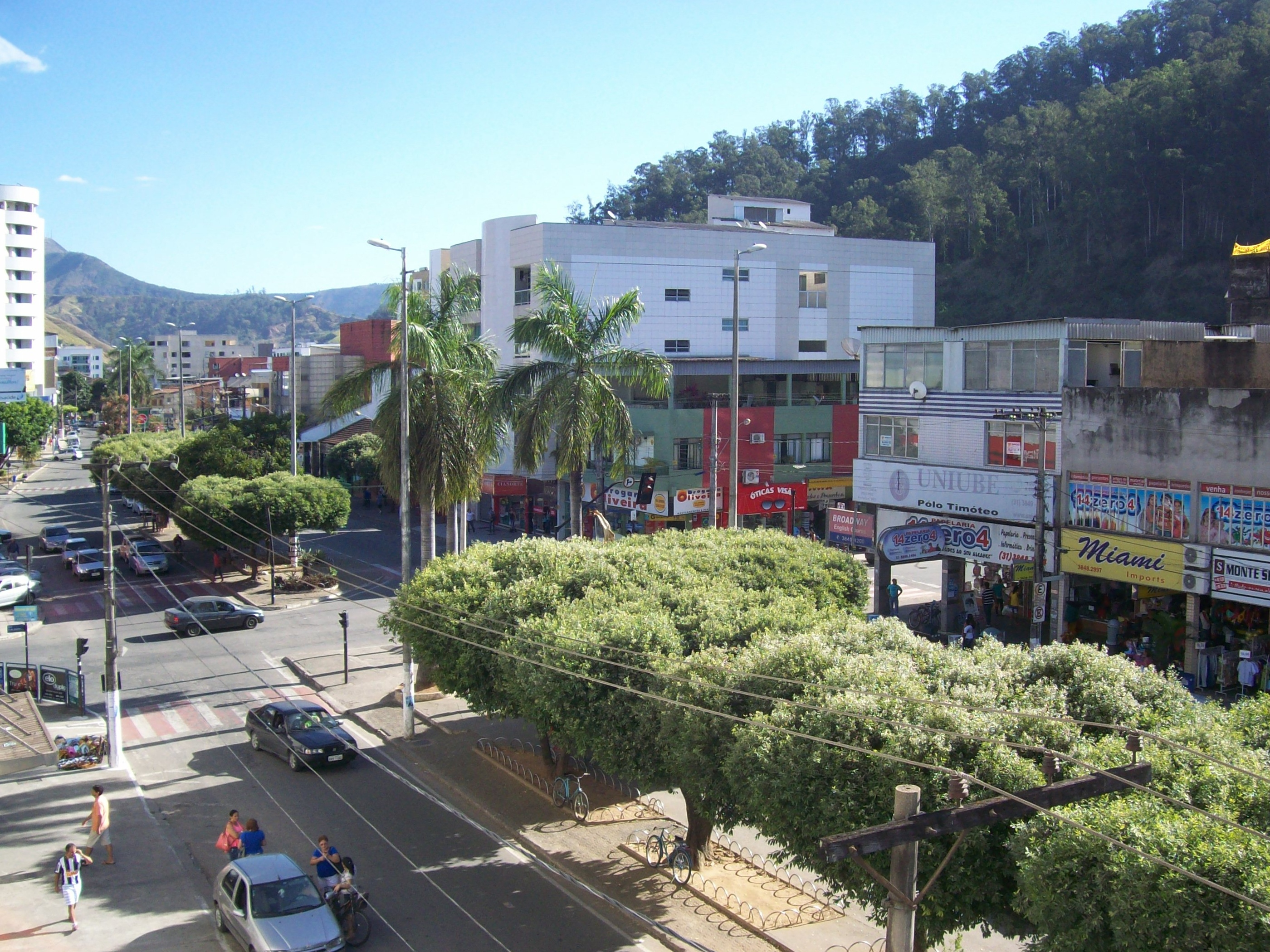 View of the 31 de Outubro (31 October) Avenue seen from of the Bretas supermarket, in Timóteo, Minas Gerais, Brazil.